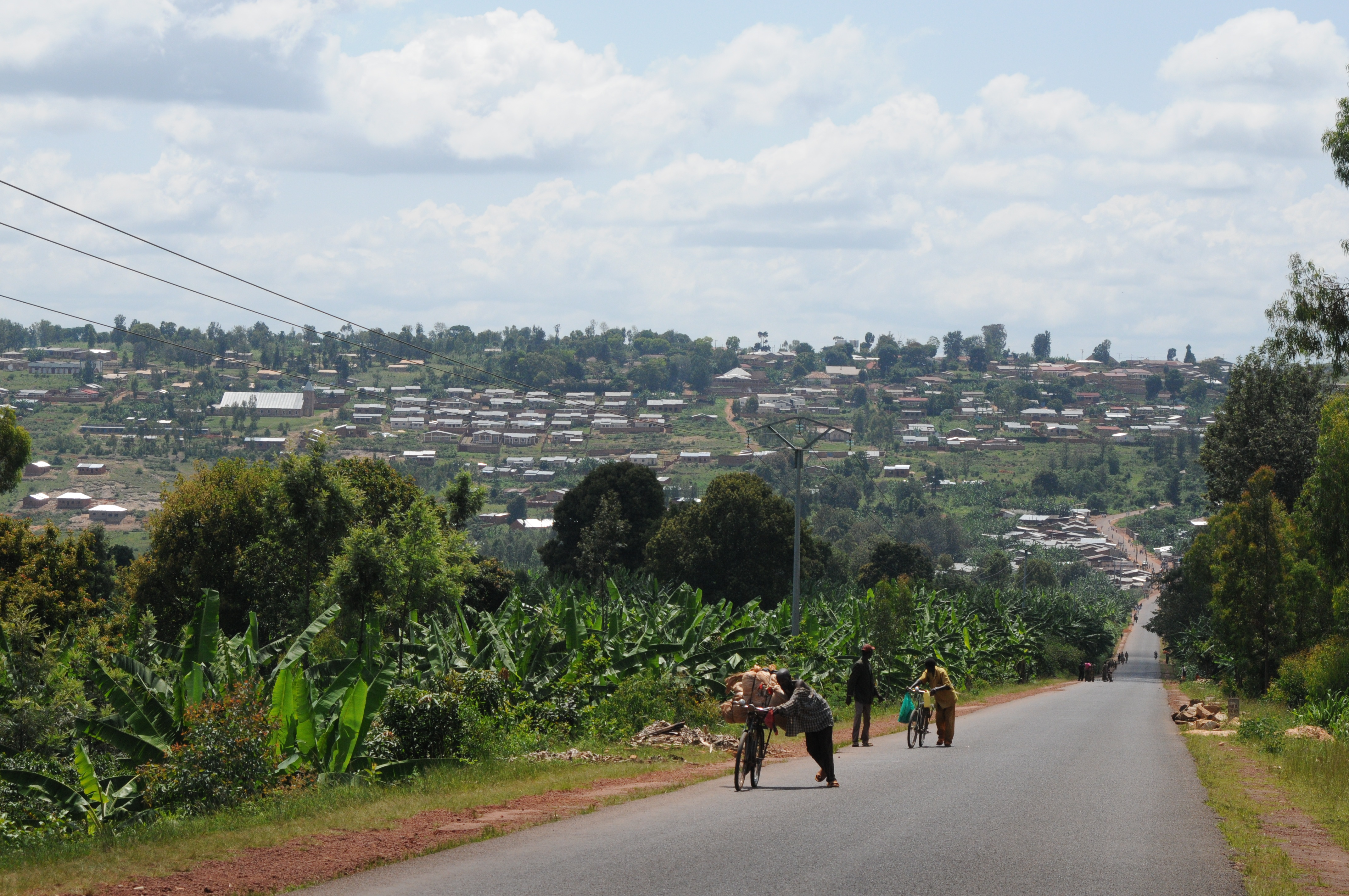 Burundi - Sanitation in Rutana / Assainissement à Rutana